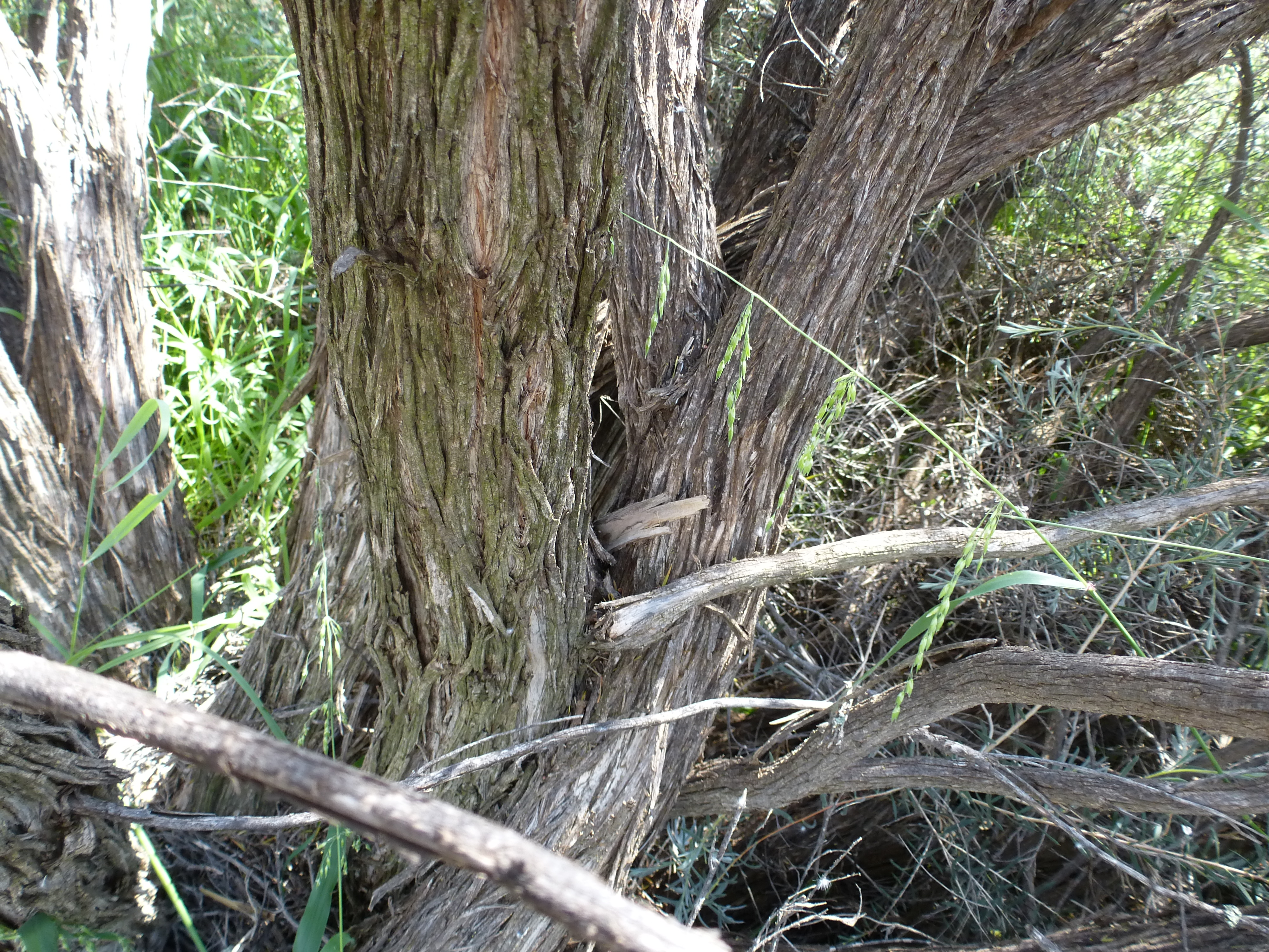 Melaleuca stereophloia growing 20 km east of Geraldton